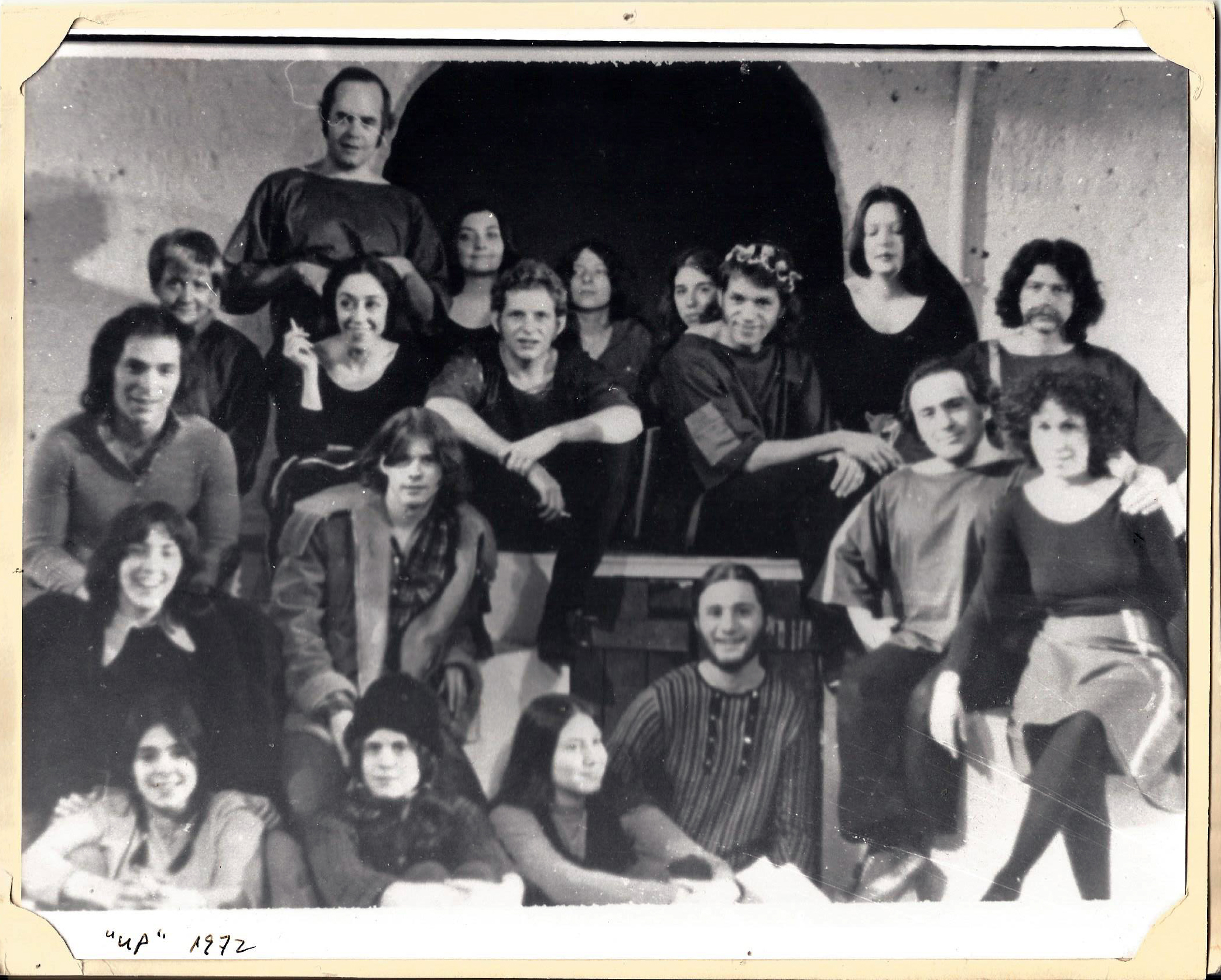 Production of UP - Cast and crew photo. Far right , actors, Danny DiVito, Rhea Perlman. With hat, musician Cathy Heriza. others to be identified.